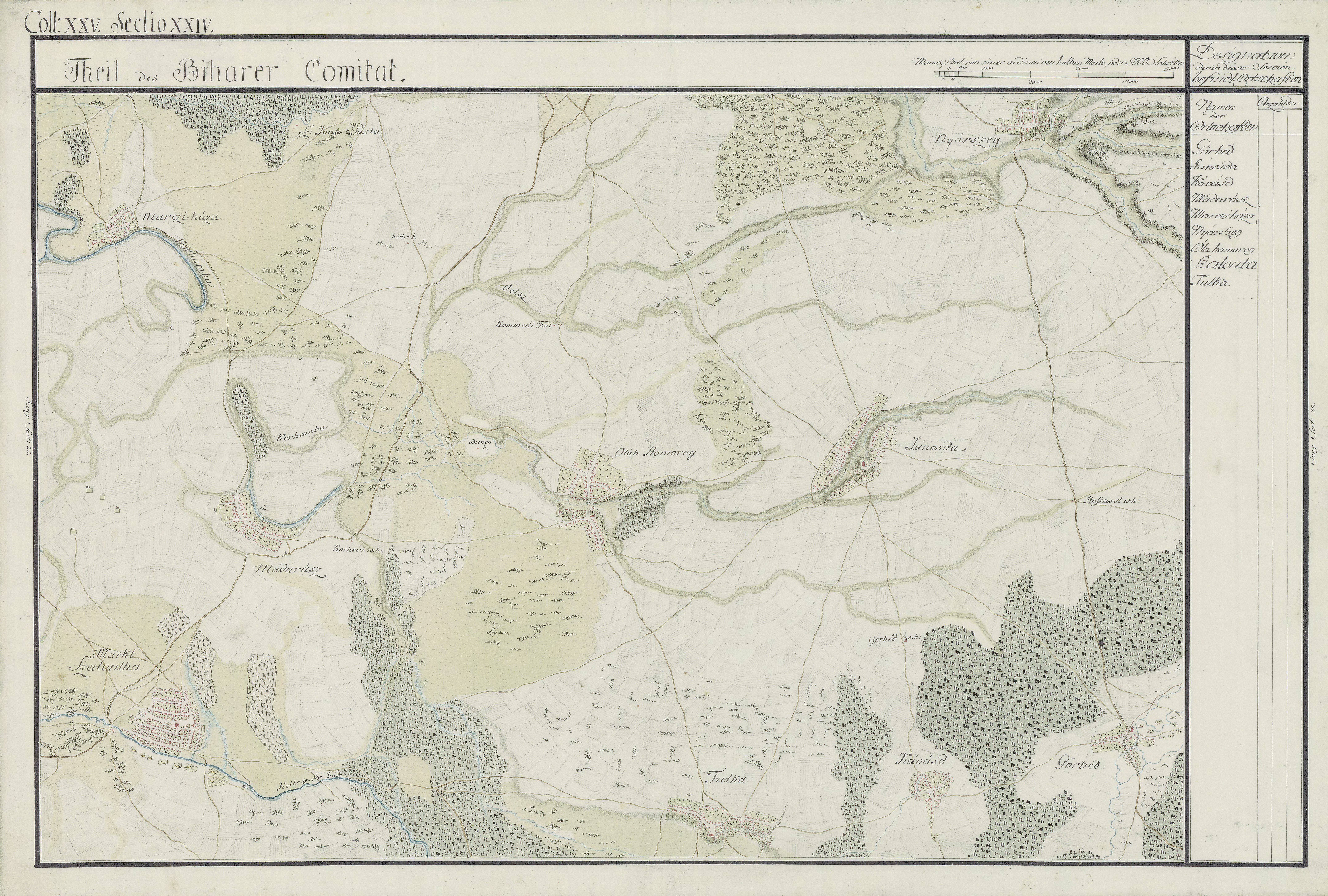 Bihor County, 1782-85. Josephinische Landesaufnahme pg.25-24